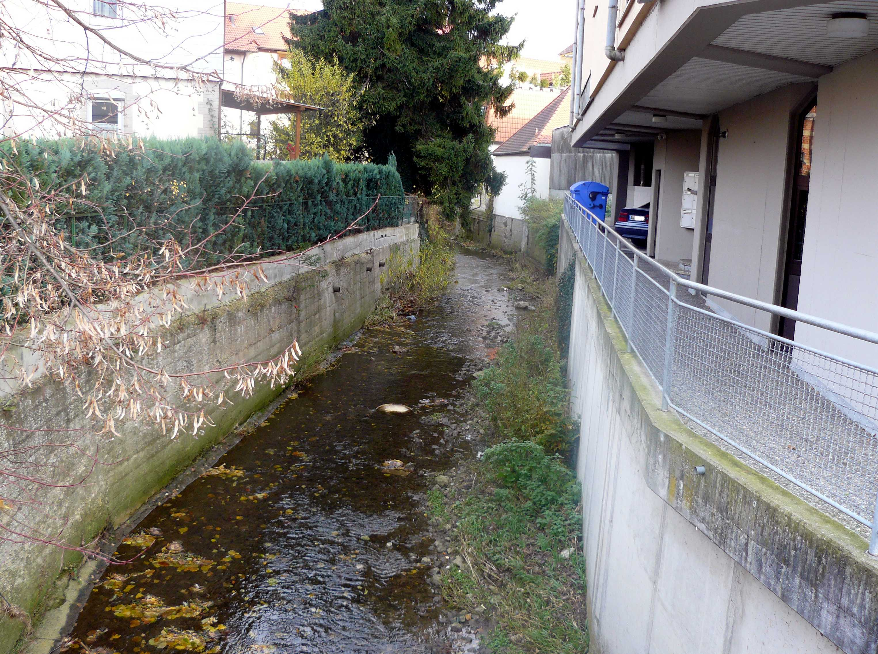 The stream "Aal" in Aalen